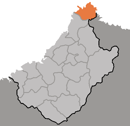 Map of Chunggang, Chagang-do, DPRK, 2006